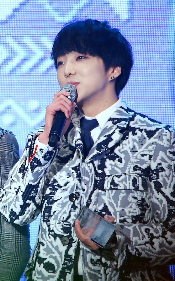 Kang Seungyoon with Winner at the Melon Music Awards on November 13, 2014.